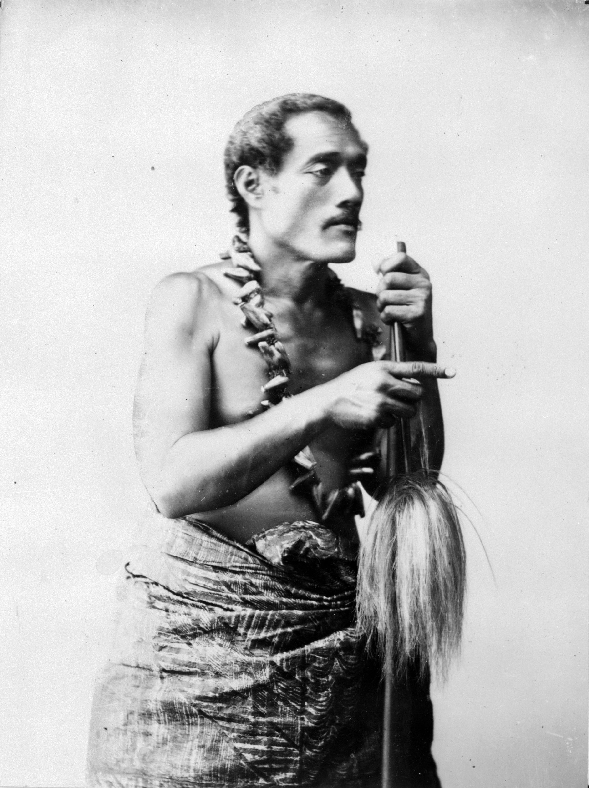 Andrew, Thomas, 1855-1939 :Samoan talking chief Lauati, between 1891-1939. Reference Number: PAColl-3060-008. Samoan talking chief (or Tulafale) Lauati, photographed by Thomas Andrew between 1891-1939. Orator chief Lauati of Safotulafai with the insignia of his office of orator, the fly brush (fue) and the orator's staff (to'oto'o). Around his neck a chain of the fragrant red beans of the Pandanus odoratissimus and around his hips a lavalava of bark cloth (siapo.)